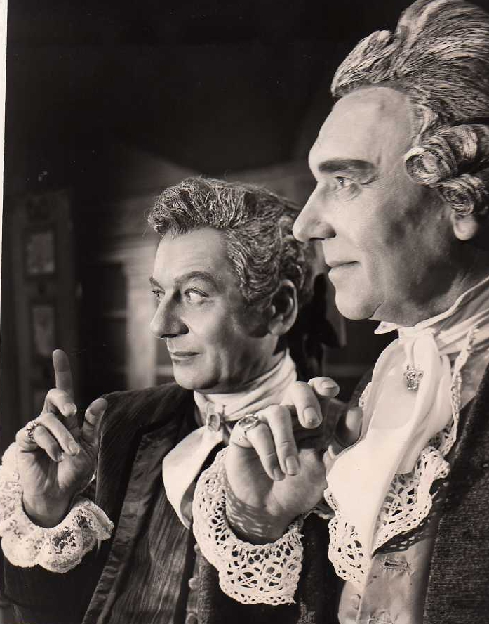 Promotional image for the 1963 Broadway production of The School for Scandal, featuring John Gielgud (left) and Ralph Richardson (right)